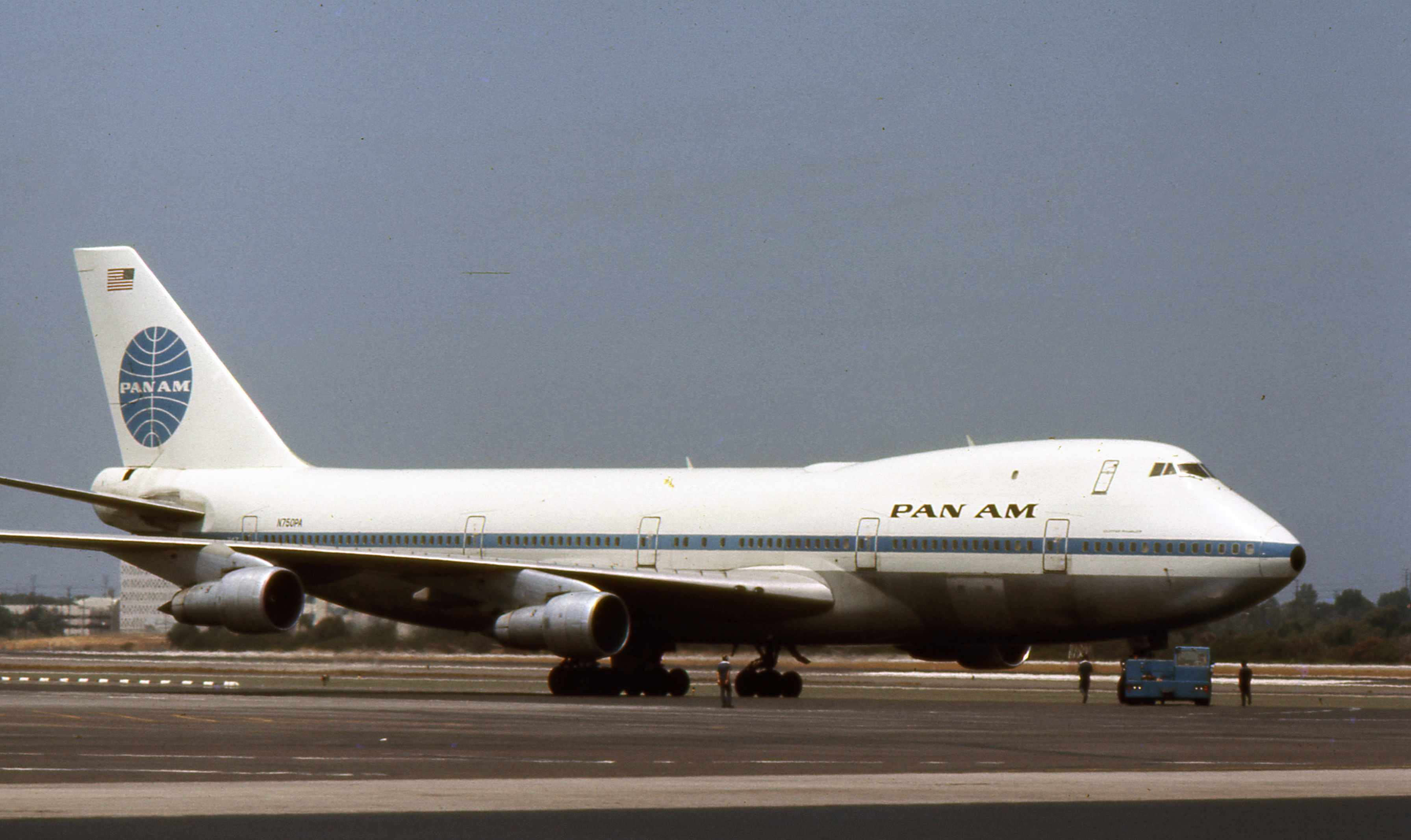 First flight on April 1st, 1970, delivered to Pan Am on April 26, 1970 named “Clipper Rambler”, renamed "Clipper Neptune's Favorite" the same year, cancelled on June 17, 1992 and broken up for parts.